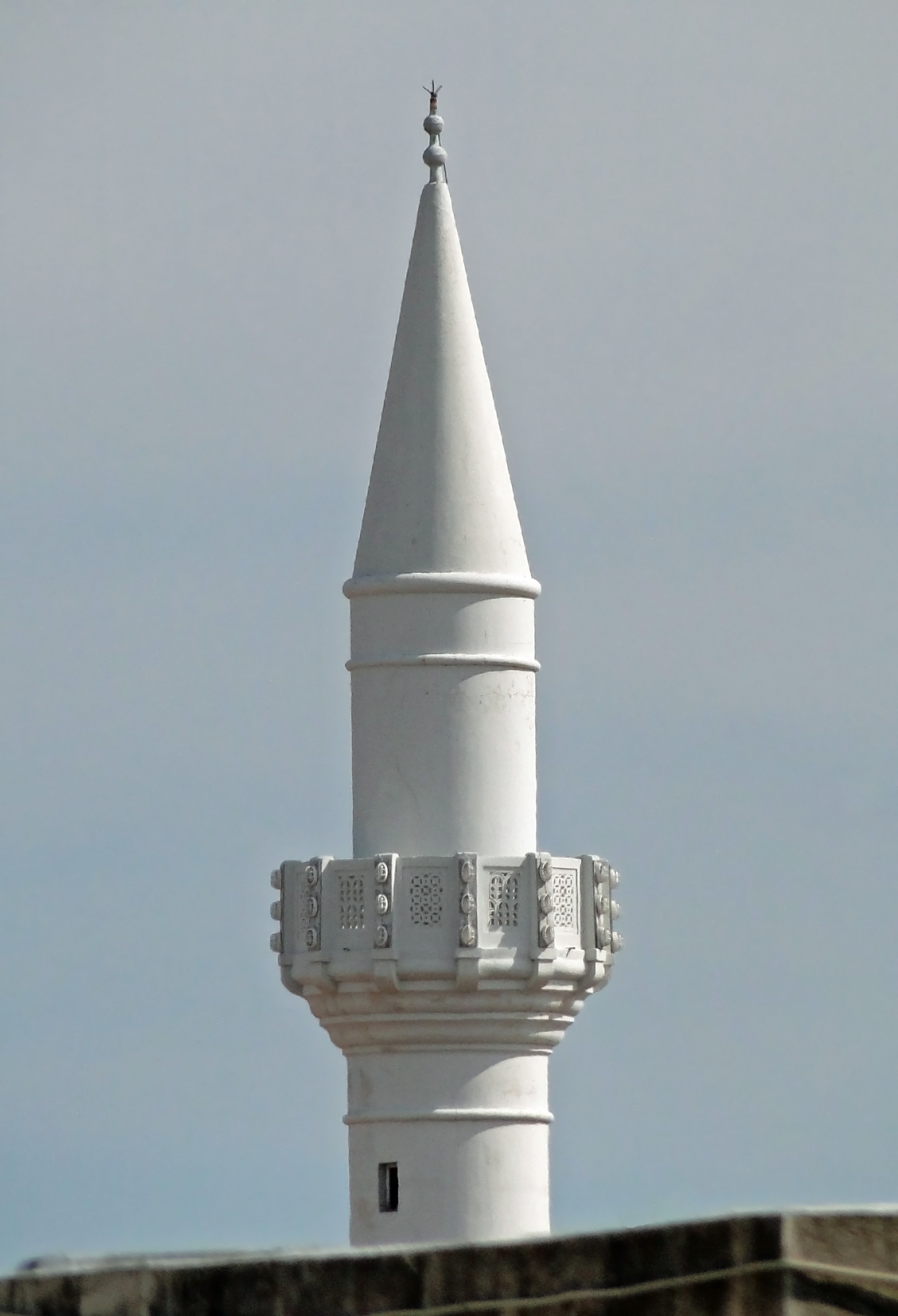 Ibrahim Pasha Mosque in the Medieval City of Rhodes, Greece